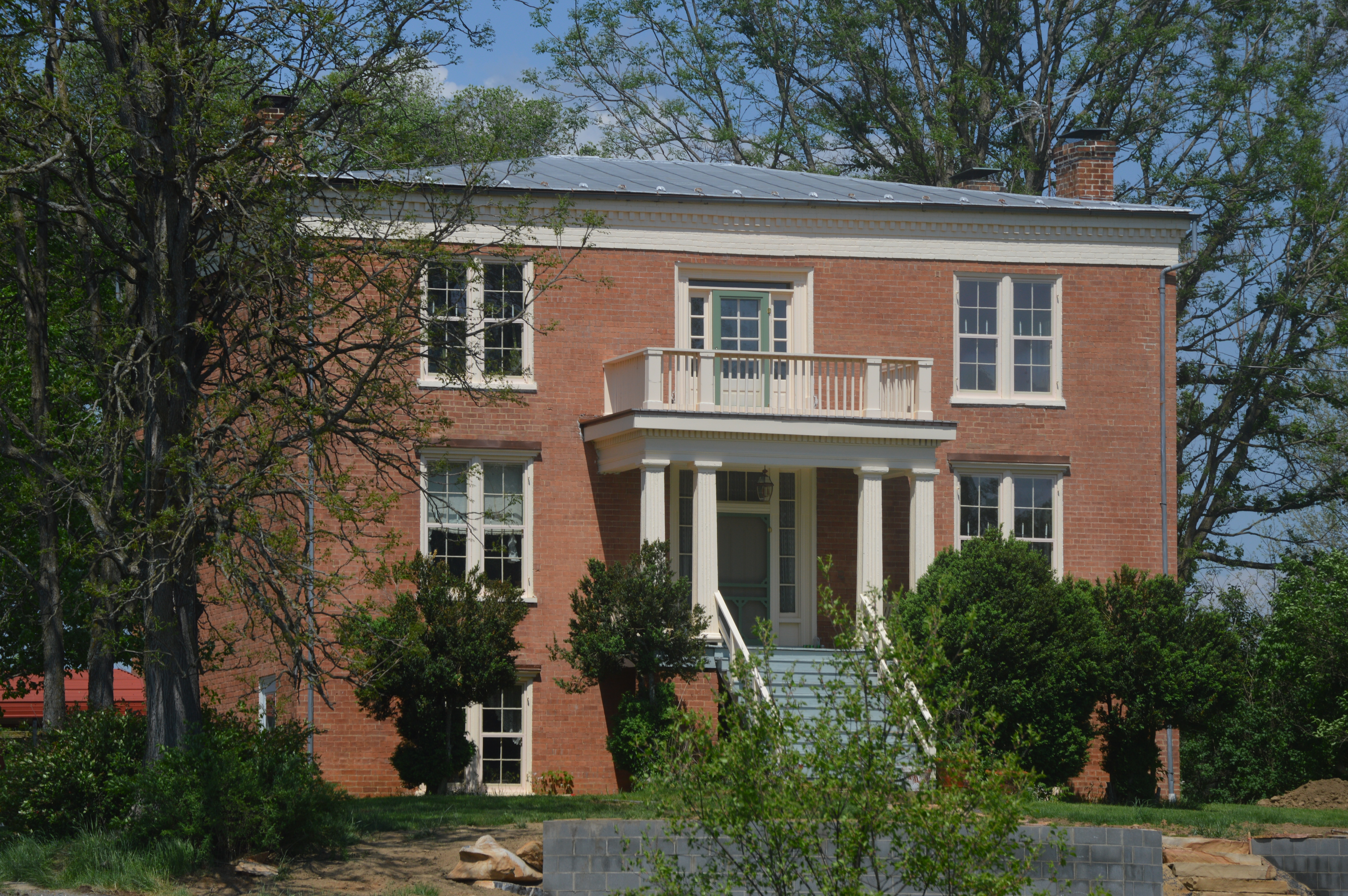 Front of the Long Meadow farmhouse, located at 2525 Fridleys Gap Road southeast of Lacey Spring in Rockingham County, Virginia, United States. Built in 1845, it is listed on the National Register of Historic Places.